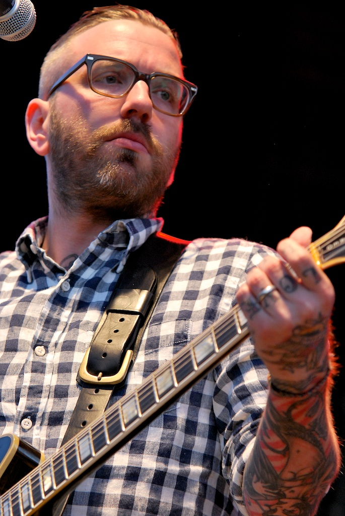 Dallas Green performing as City & Colour at at the 2011 Ottawa Folk Fesitval